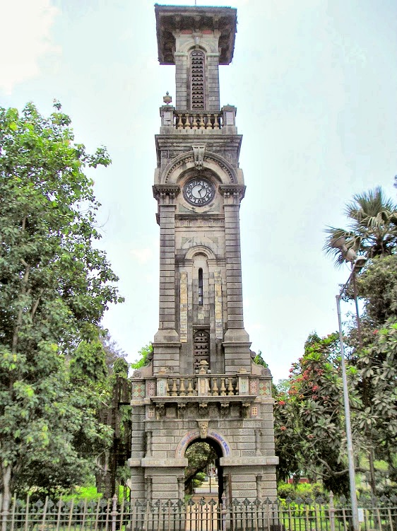 Rani bagh, has Museum and Zoo